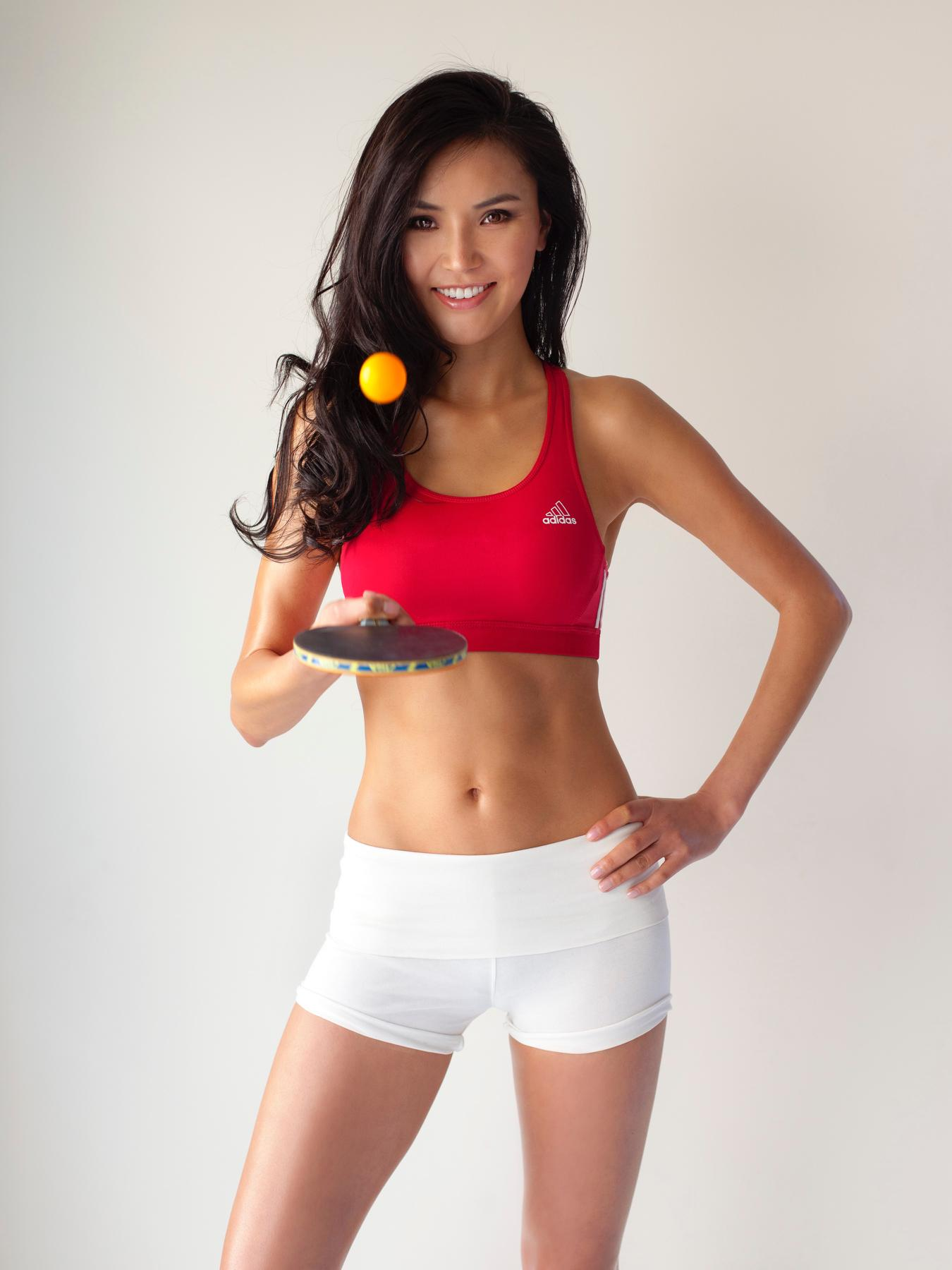 Soo Yeon Lee, South Korean Table Tennis Champion